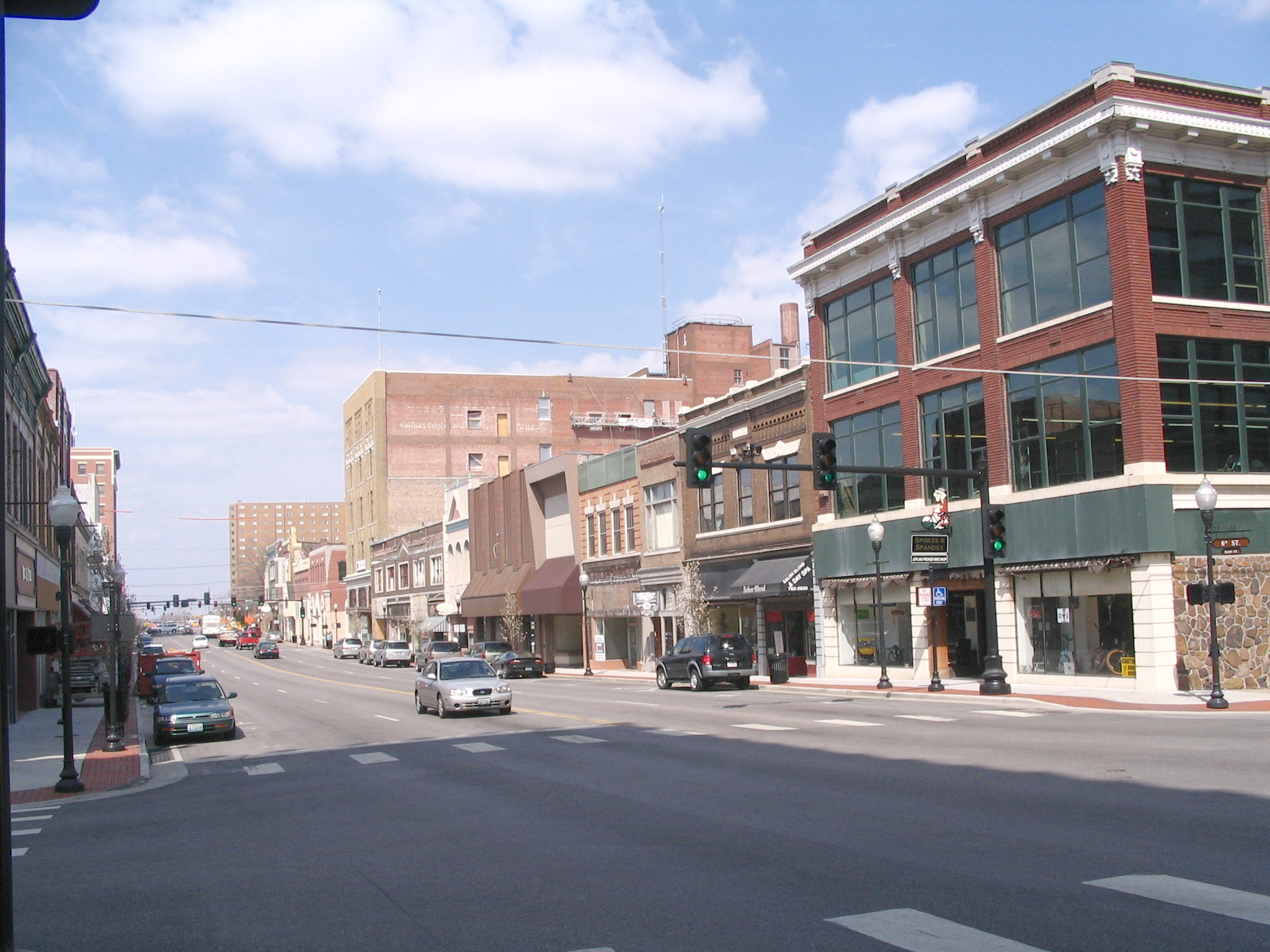 Downtown Joplin, MO looking north from 6th and Main St.